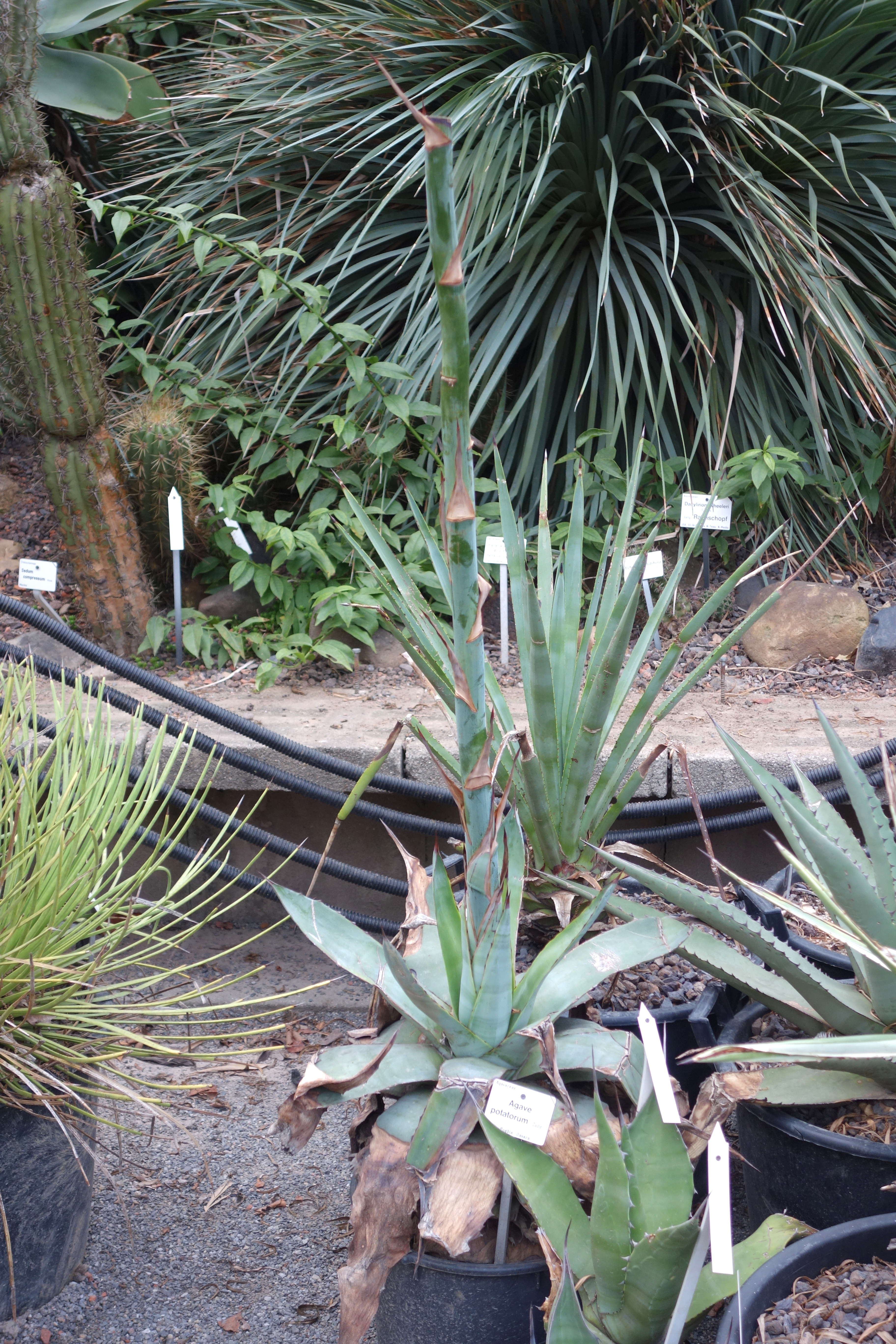 Botanical specimen in the Botanischer Garten, Dresden, Germany.